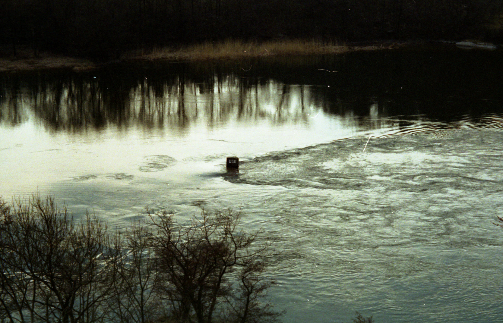 Betongfundament i nordre älv vid kungälv. Datum är okänt. Skannat från negativ.